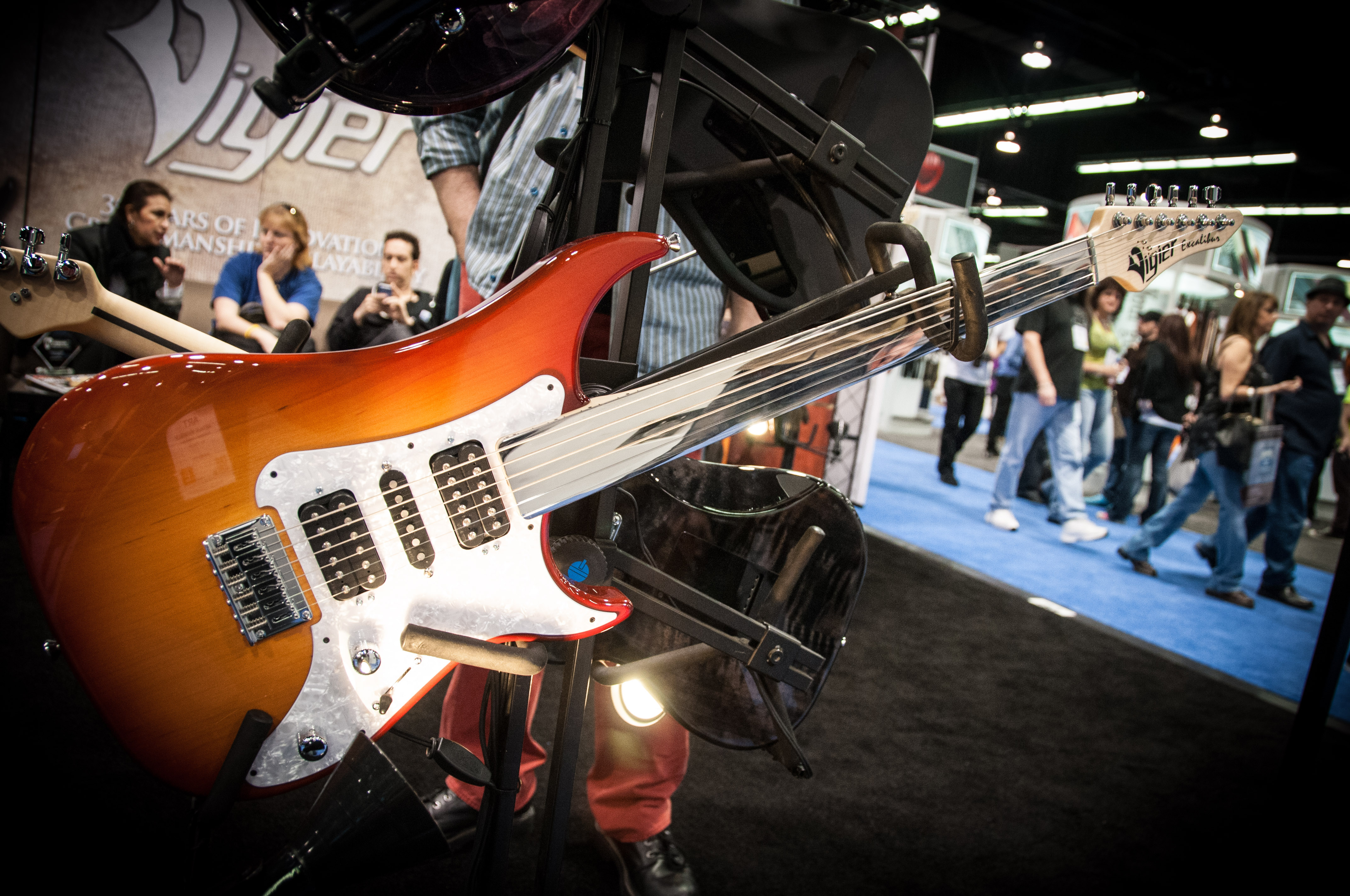 fretless electric guitar on the NAMM show 2014